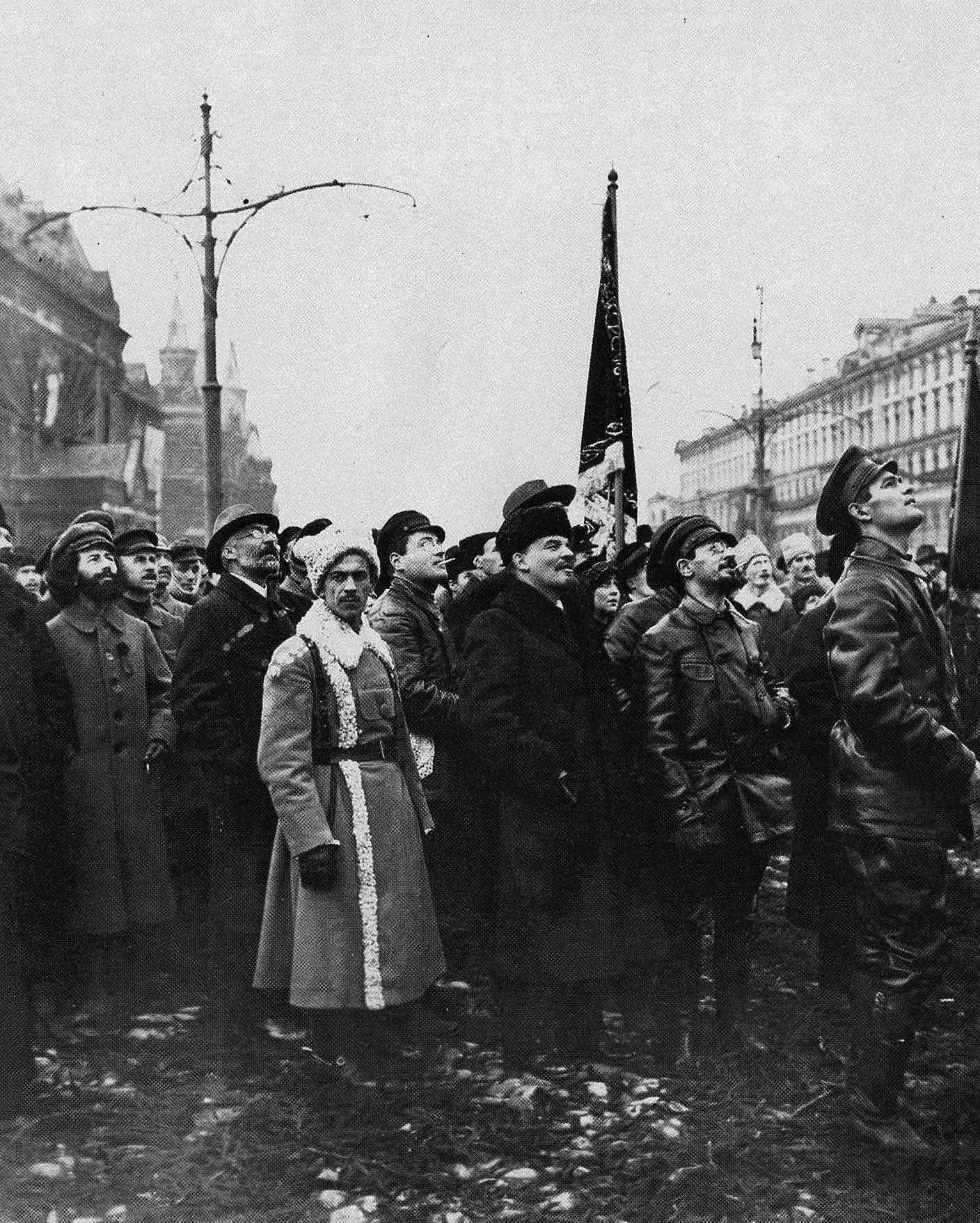 V. I. Lenin and Yakov M. Sverdlov looking over just unveiled Marx and Engels Monument on Voskresensky Square (now Revolution Square) in Moscow, November 7, 1918.